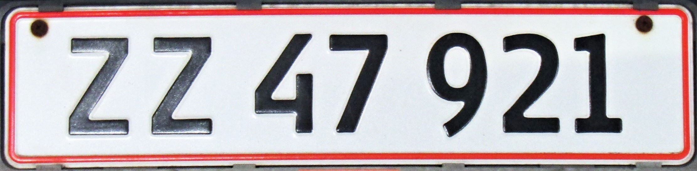 Danish license plate without EU strip